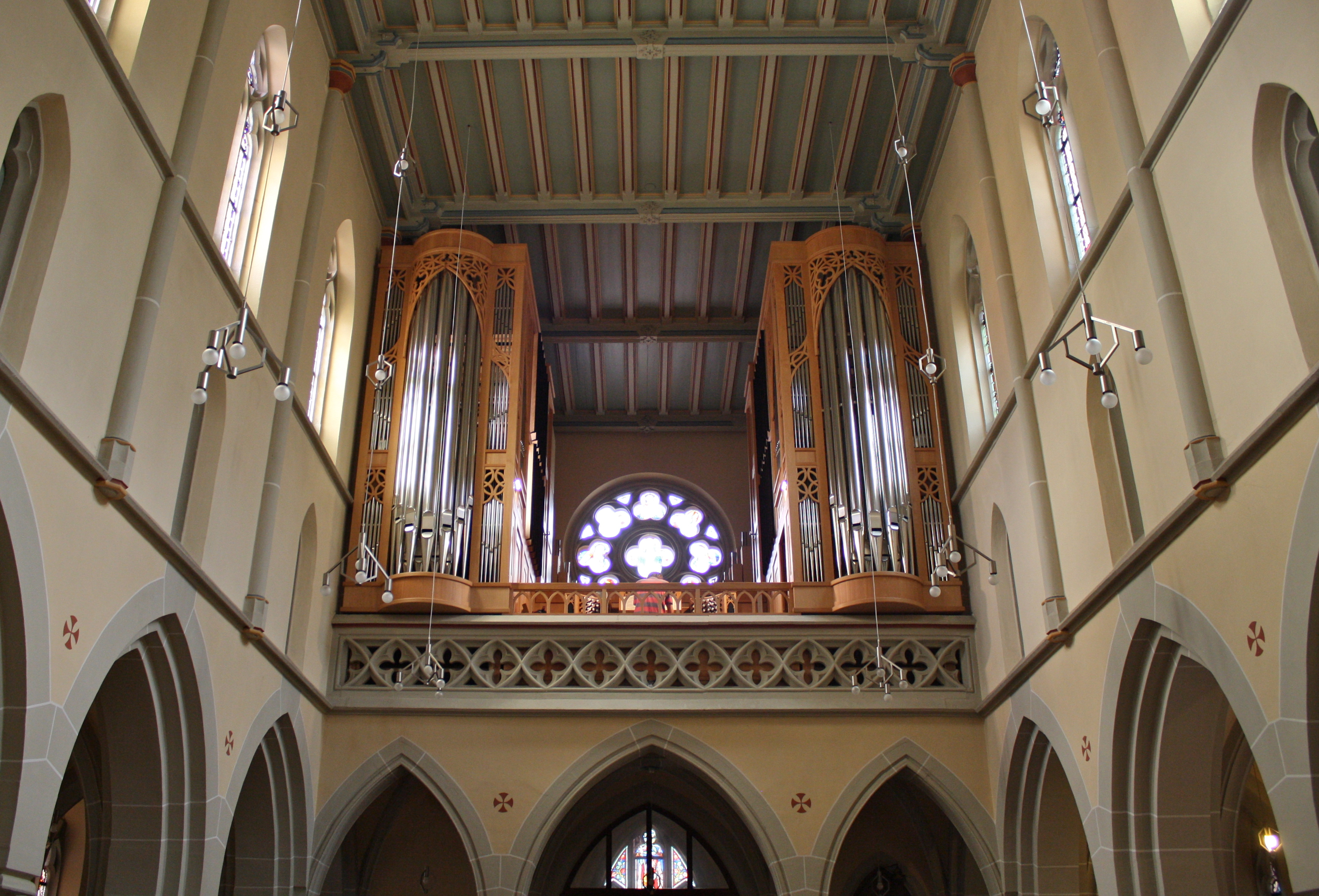 Franz Liszt Memorial Organ at Sacred Heart Catholic Church, Weimar